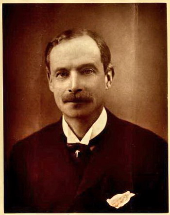 Marcellus Purnell Castle, a British philatelist, President of the Royal Philatelic Society London, the first editor of The London Philatelist, whose name was entered on the The Roll of Distinguished Philatelists as one of the "Fathers of philately". He was also awarded with the Lindenberg Medal.